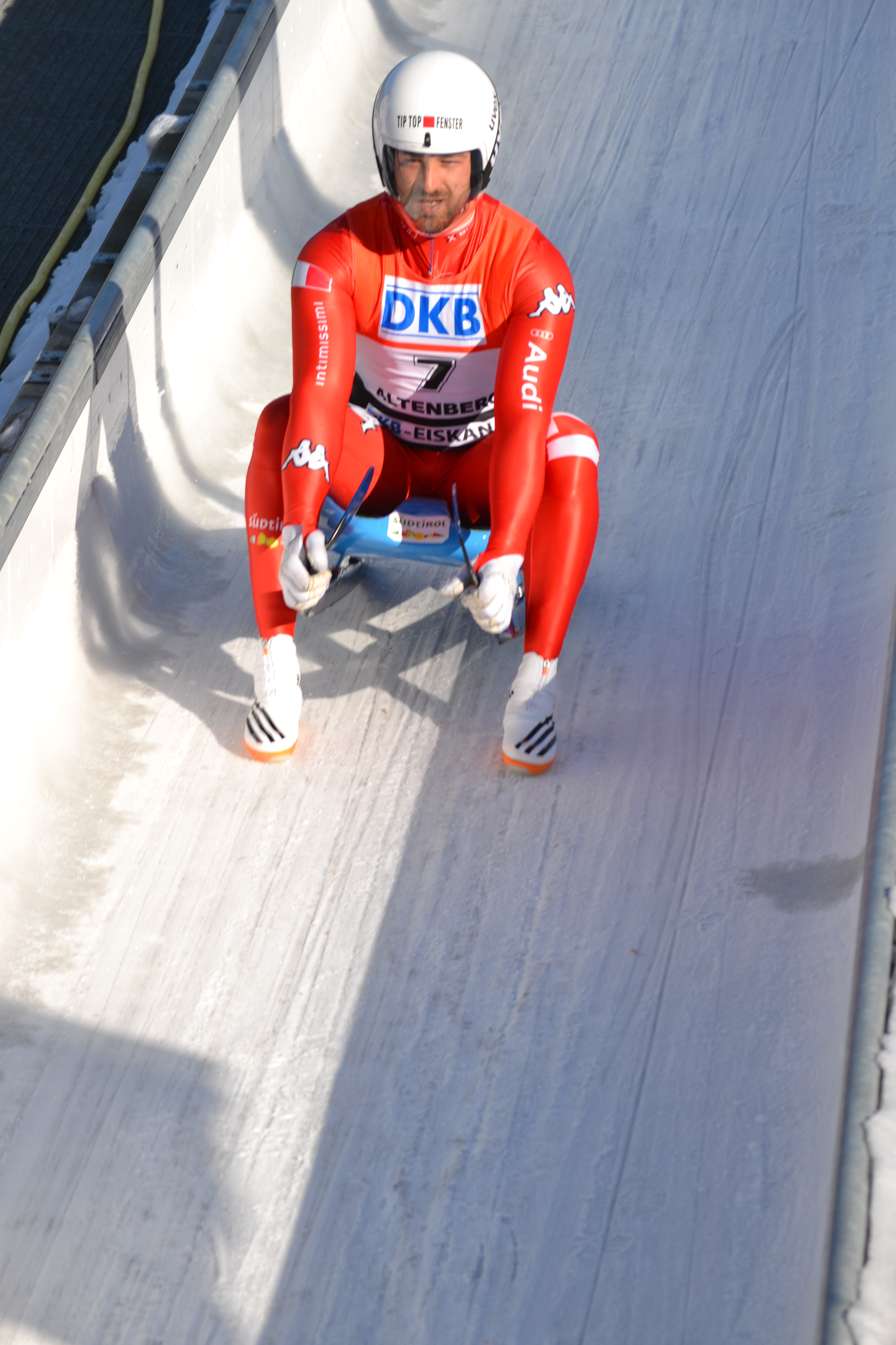 Luge world cup race season 2014/15 in Altenberg/Germany, 19th to 22nd Februar 2015. Day 2: Nations cup races.